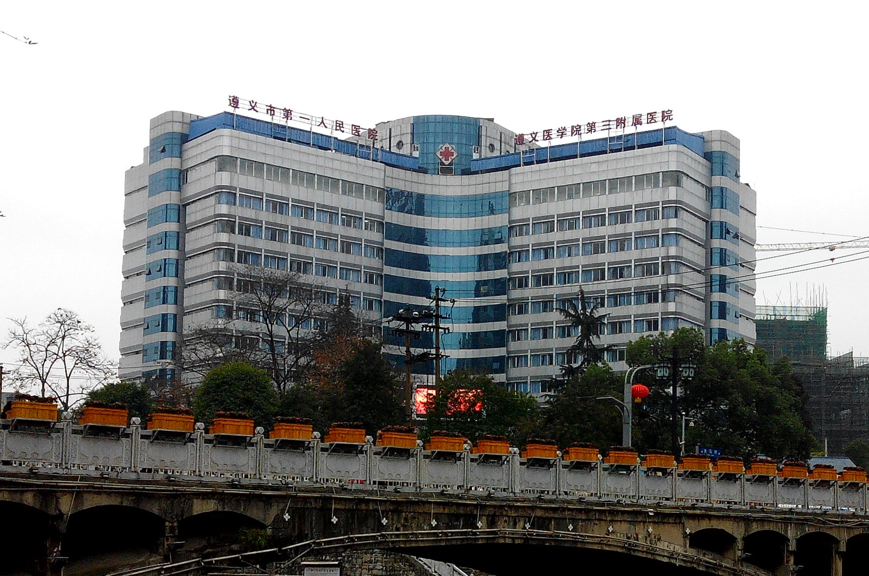 Zunyi No.1 People's Hospital